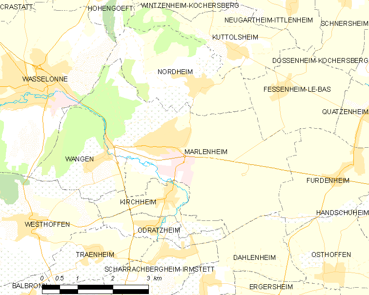 Map of French municipality